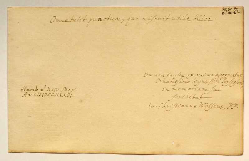 Inscription of Johann Christian Wolf in Album amicorum of Johann Friedrich Behrendt, 1736, May 24